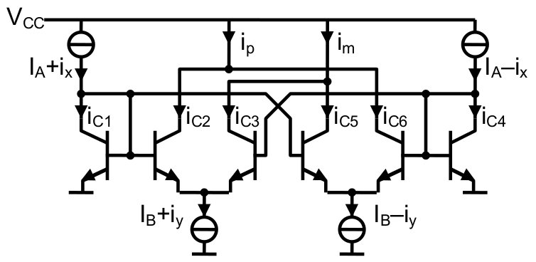 Gilbert multiplicators